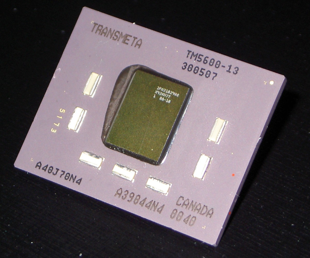 Transmeta Crusoe Processer TM5600